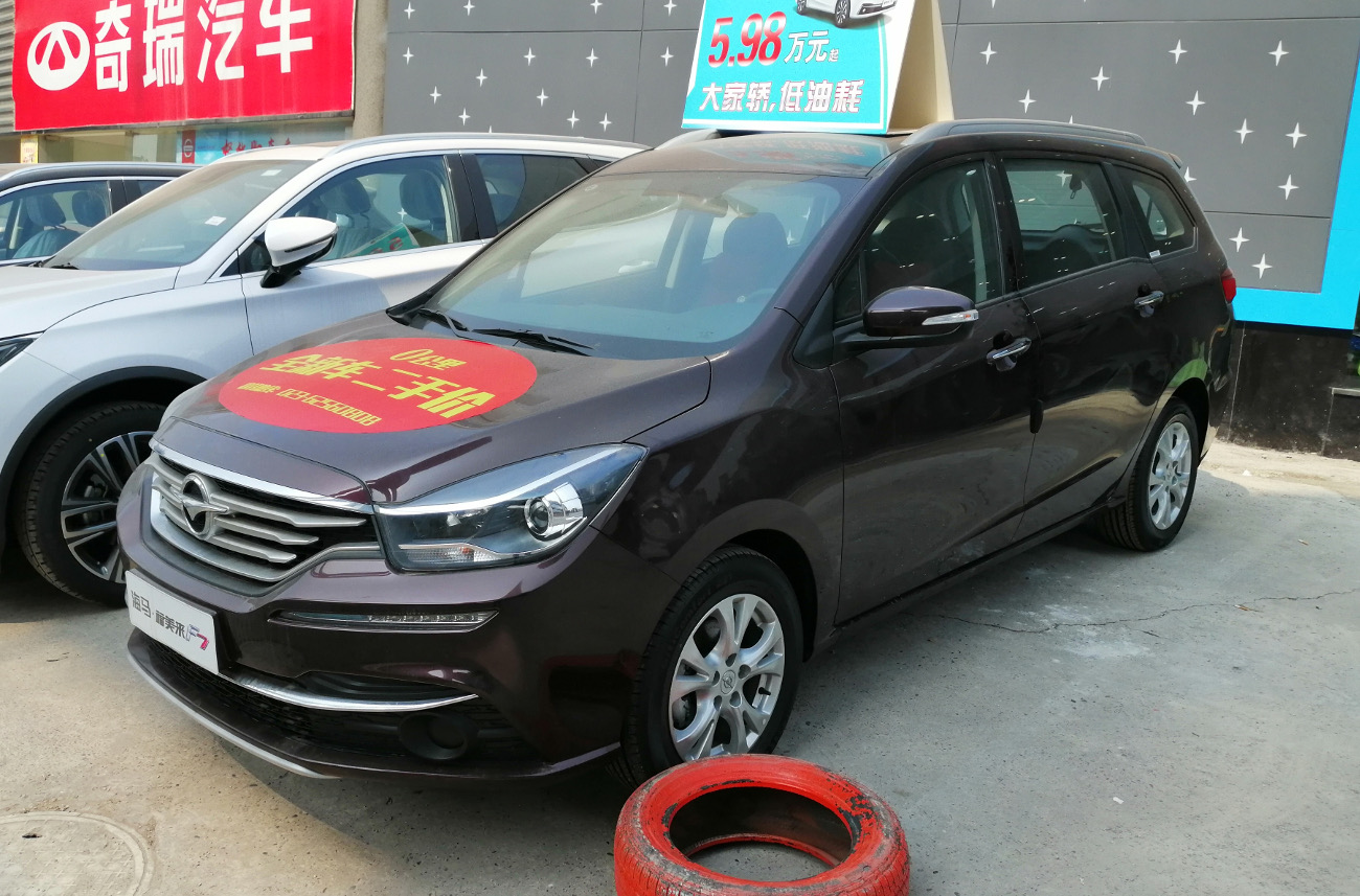 Haima Family F7 photographed in Chongqing, China.